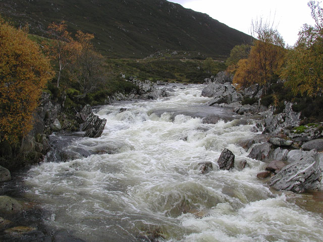 Linn of Avon. Below the slopes of the massive Ben Avon, the river Avon evacuates runoff from the remote centre of the Cairngorms.